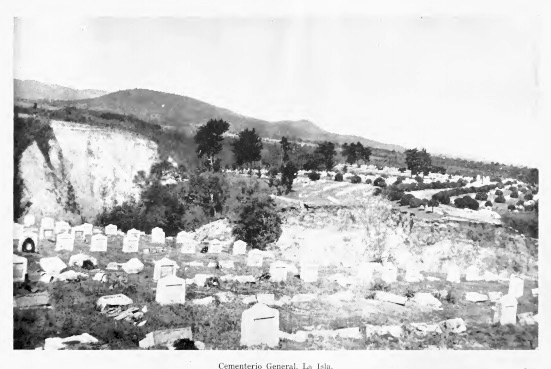 Efectos del Terremoto de 1917-18 en la Ciudad de Guatemala